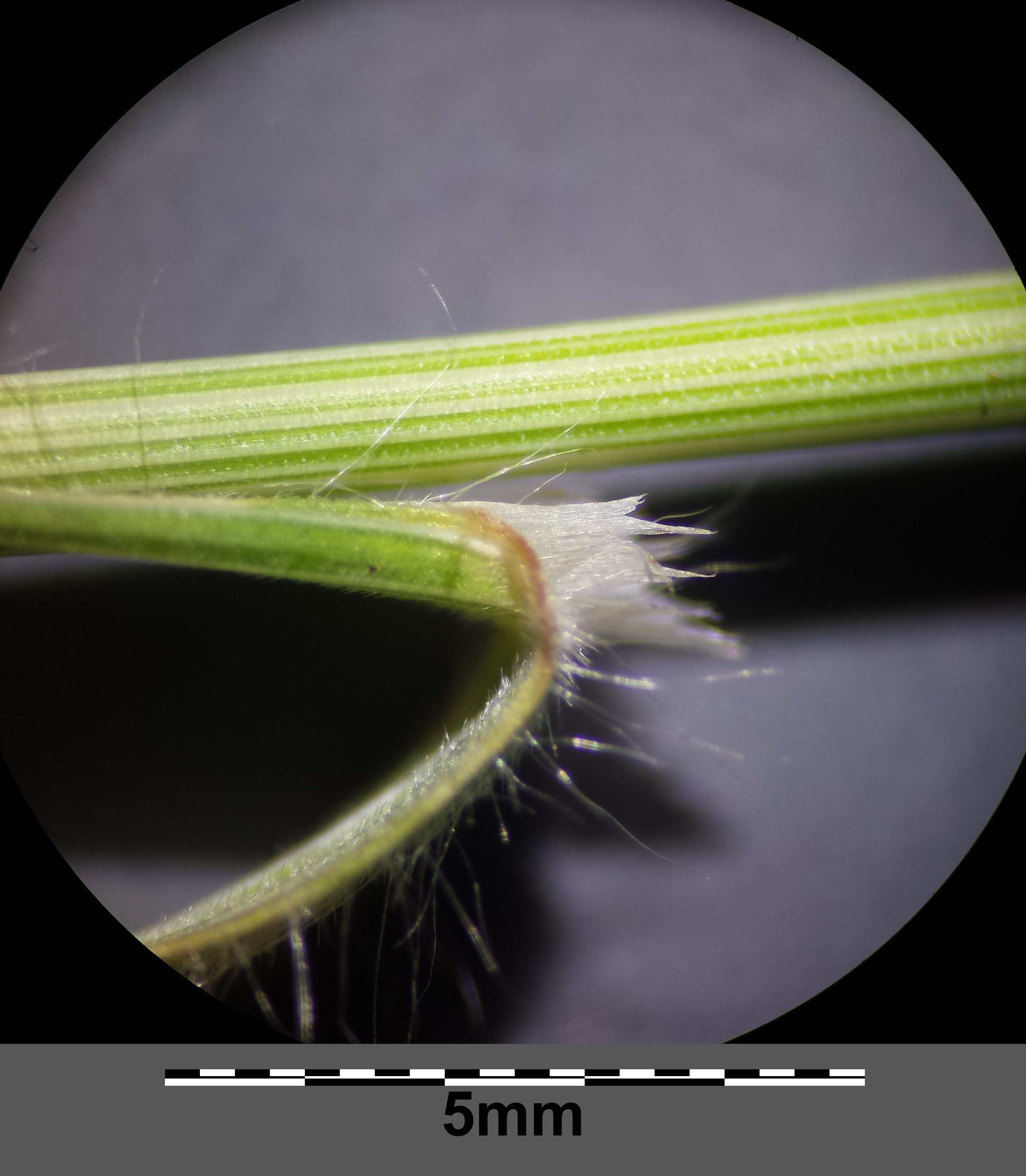 Stem with leaf sheath and ligule Taxonym: Bromus tectorum ss Fischer et al. EfÖLS 2008 ISBN 978-3-85474-187-9 Location: Jedlersdorf rail station, Vienna-Floridsdorf - ca. 160 m a.s.l. Habitat: ruderal area